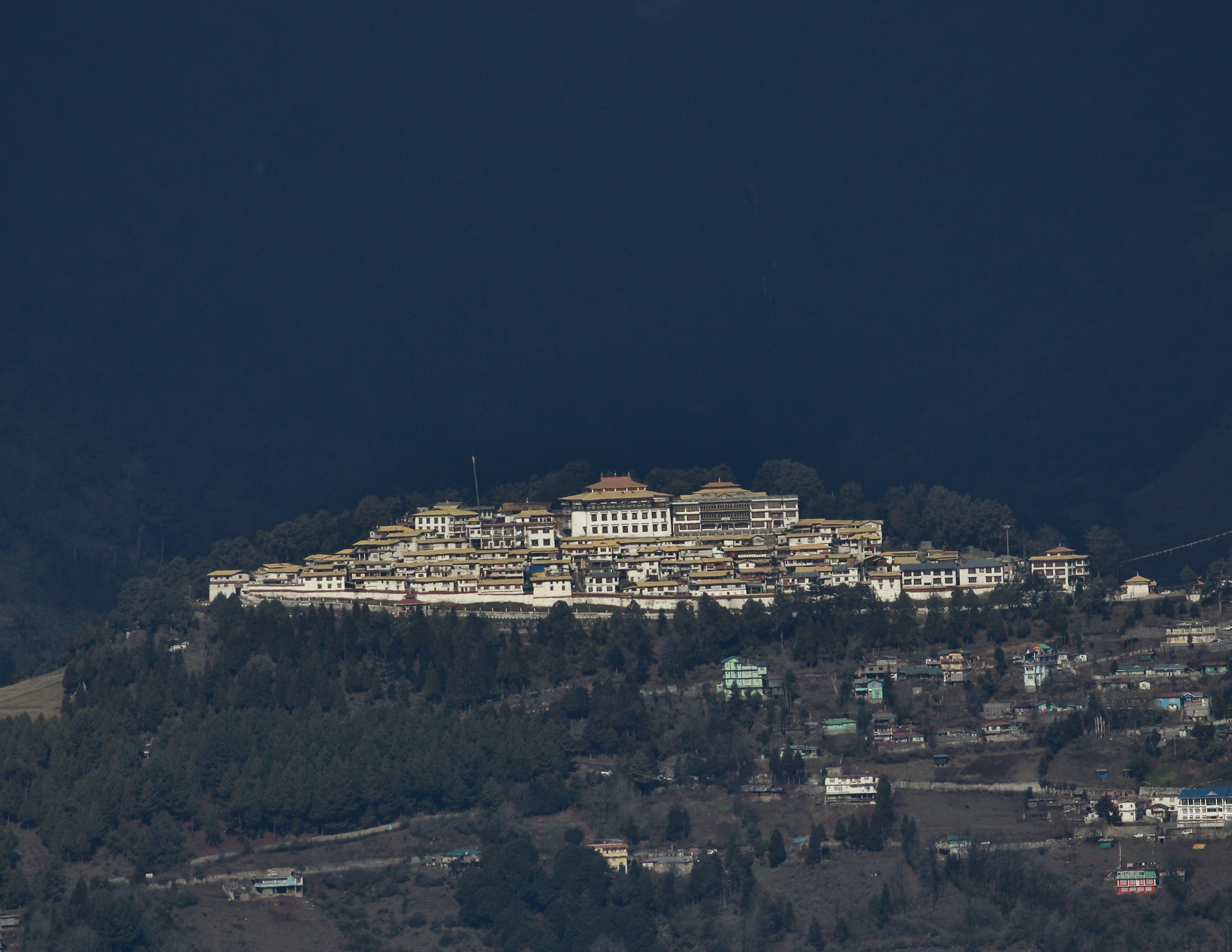 Tawang Monastery second largest monastery in Asia Arunachal Pradesh India.